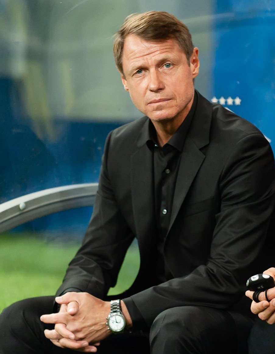 Oleg Kononov coaching FC Spartak Moscow in a game against FC Rostov.